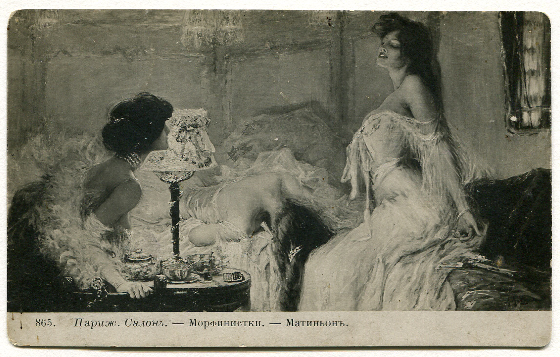 Paris. Salon. - Morfinistki - Albert Matignon